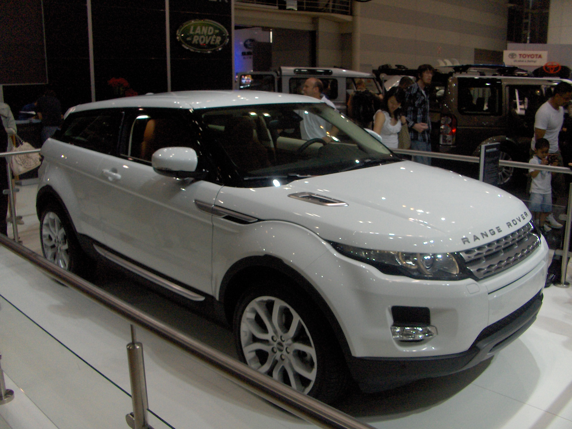 Range Rover Evoque at the 2010 AIMS.